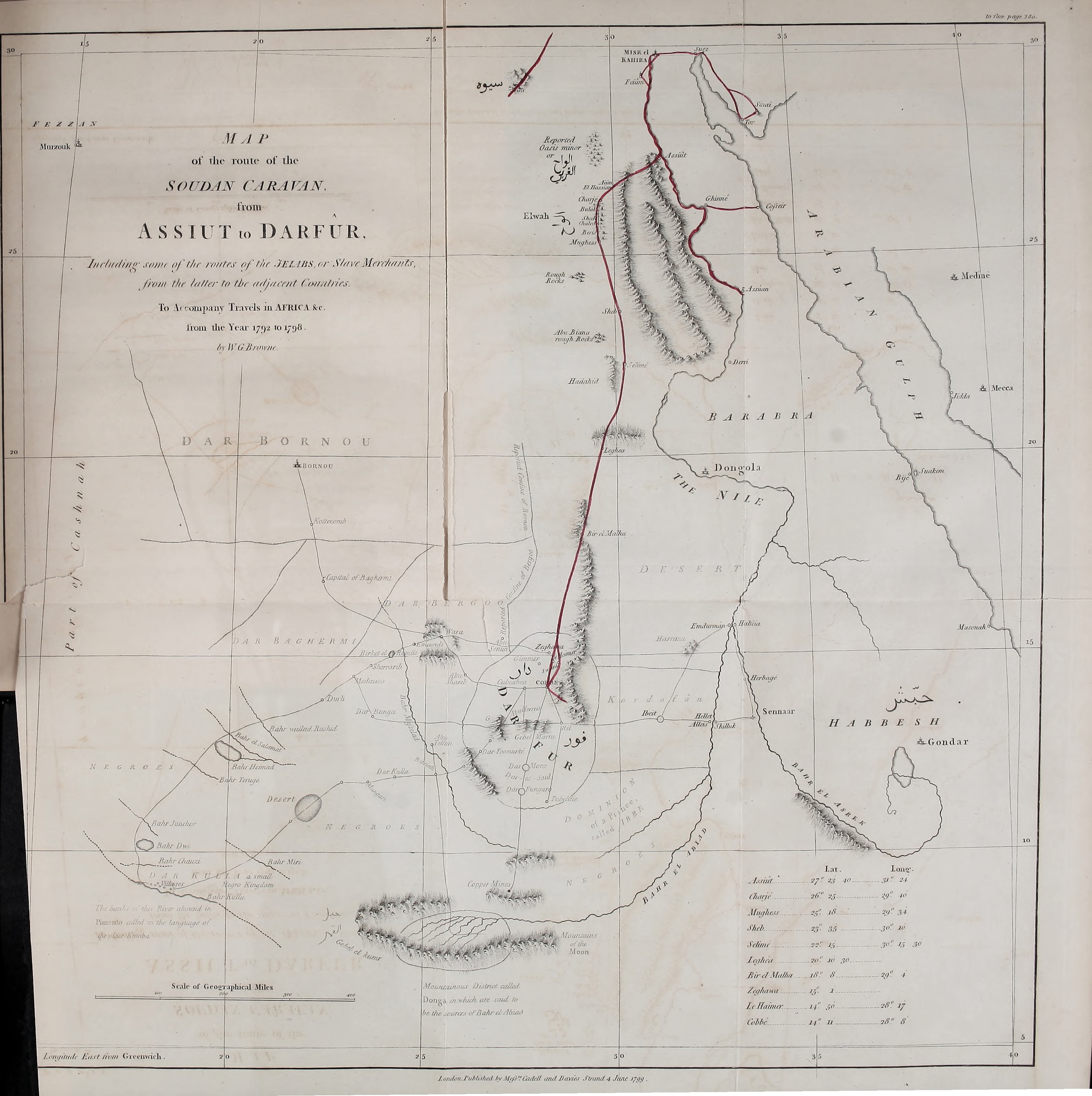 Map of the route of the Soudan Caravan from Assiut to Darfur